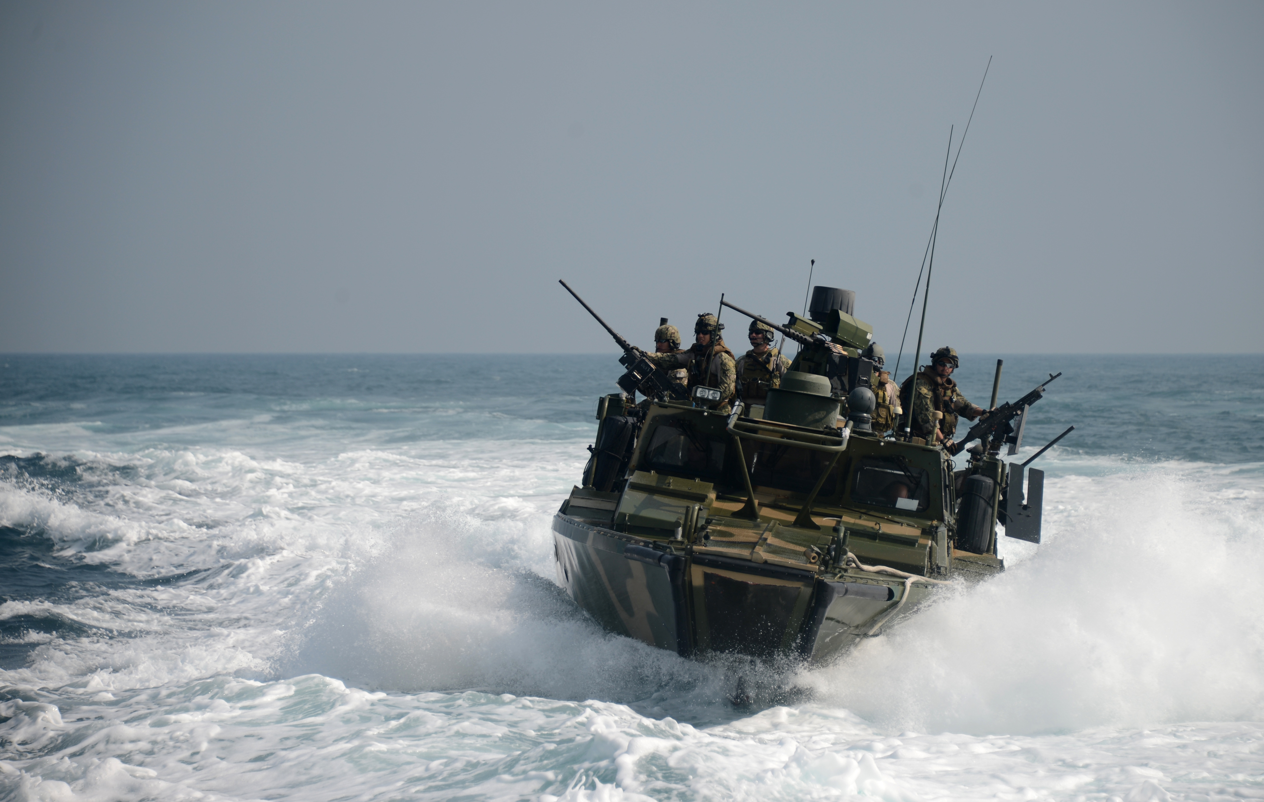 PERSIAN GULF (Jan. 21, 2014) Sailors assigned to Task Group 56.7.4 transit the Persian Gulf aboard a riverine command boat during a training exercise. Riverine command boats provide a multi-mission platform for the U.S. 5th Fleet area of responsibility by focusing on maritime security operations, maritime infrastructure protection, and theater security cooperation efforts, in addition to offensive combat operations. (U.S. Navy photo by Mass Communication Specialist 1st Class Michelle L. Turner/Released) 140121-N-OU681-198 Join the conversation navylive.dodlive.mil